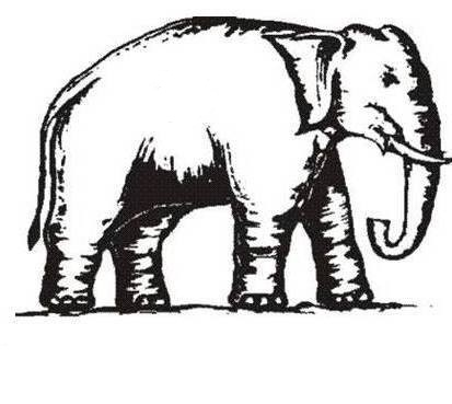 This is an Election Symbol of Bahujan Samaj Party and other indian parties.